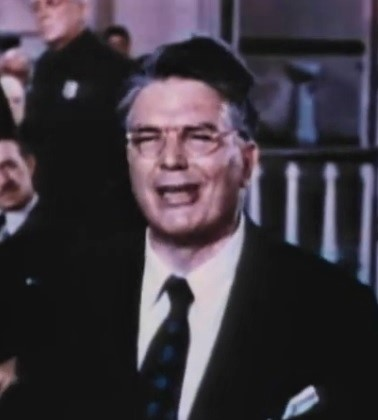 Whitford Kane in Who Killed Doc Robbin - cropped screenshot